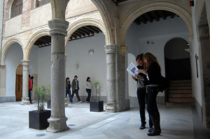 ie university courtyard with students